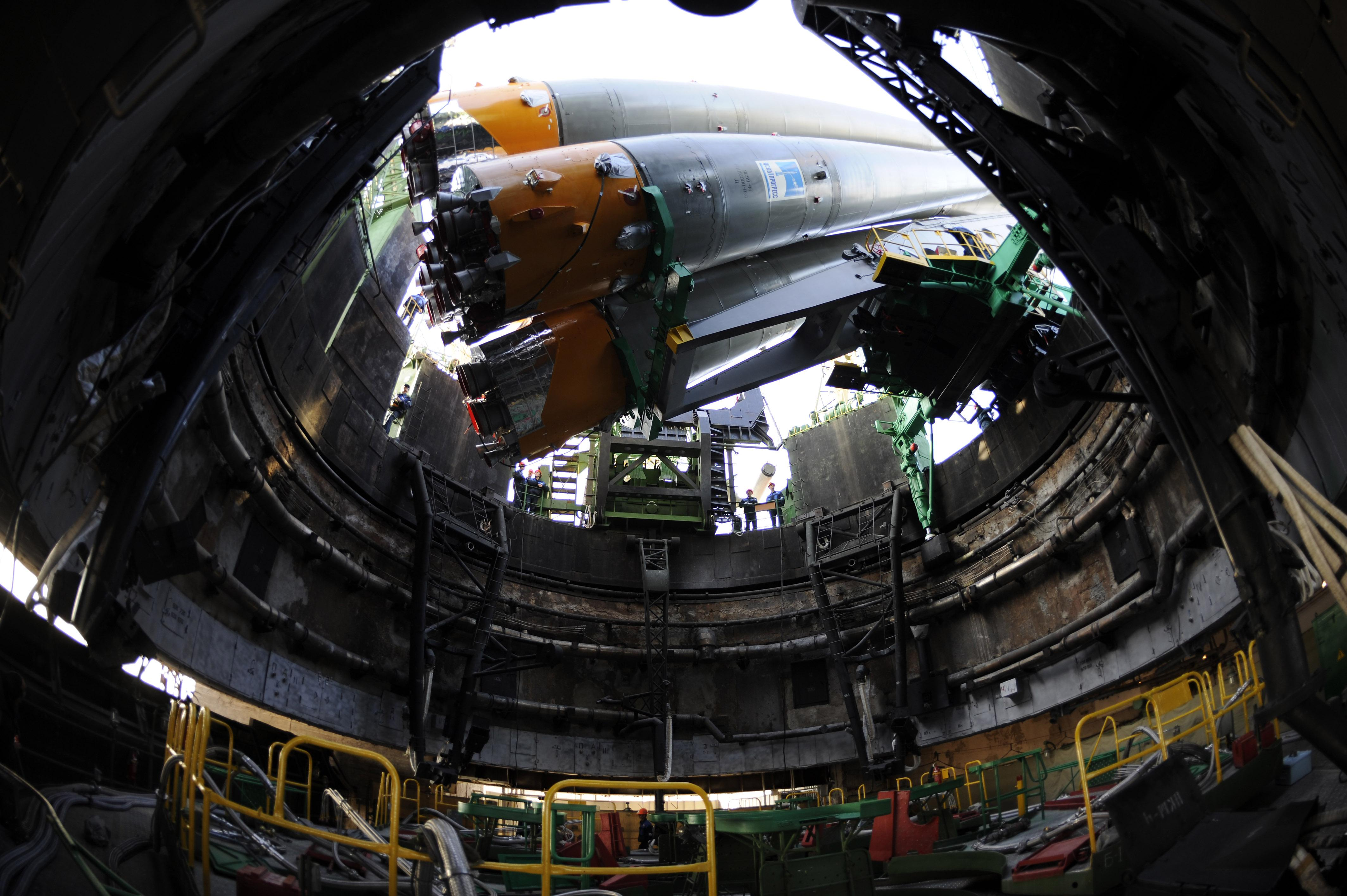 The Soyuz TMA-13 spacecraft arrives at the launch pad at the Baikonur Cosmodrome in Kazakhstan, Friday, Oct. 10, 2008, for the Oct. 12 launch that will carry Expedition 18 Commander Michael Fincke, Flight Engineer Yury V. Lonchakov and American spaceflight participant Richard Garriott to the International Space Station. The three will dock their Soyuz to the International Space Station on Oct. 14. Fincke and Lonchakov will spend six months on the station, while Garriott will return to Earth Oct. 24, 2008, with two of the Expedition 17 crew currently on the station.